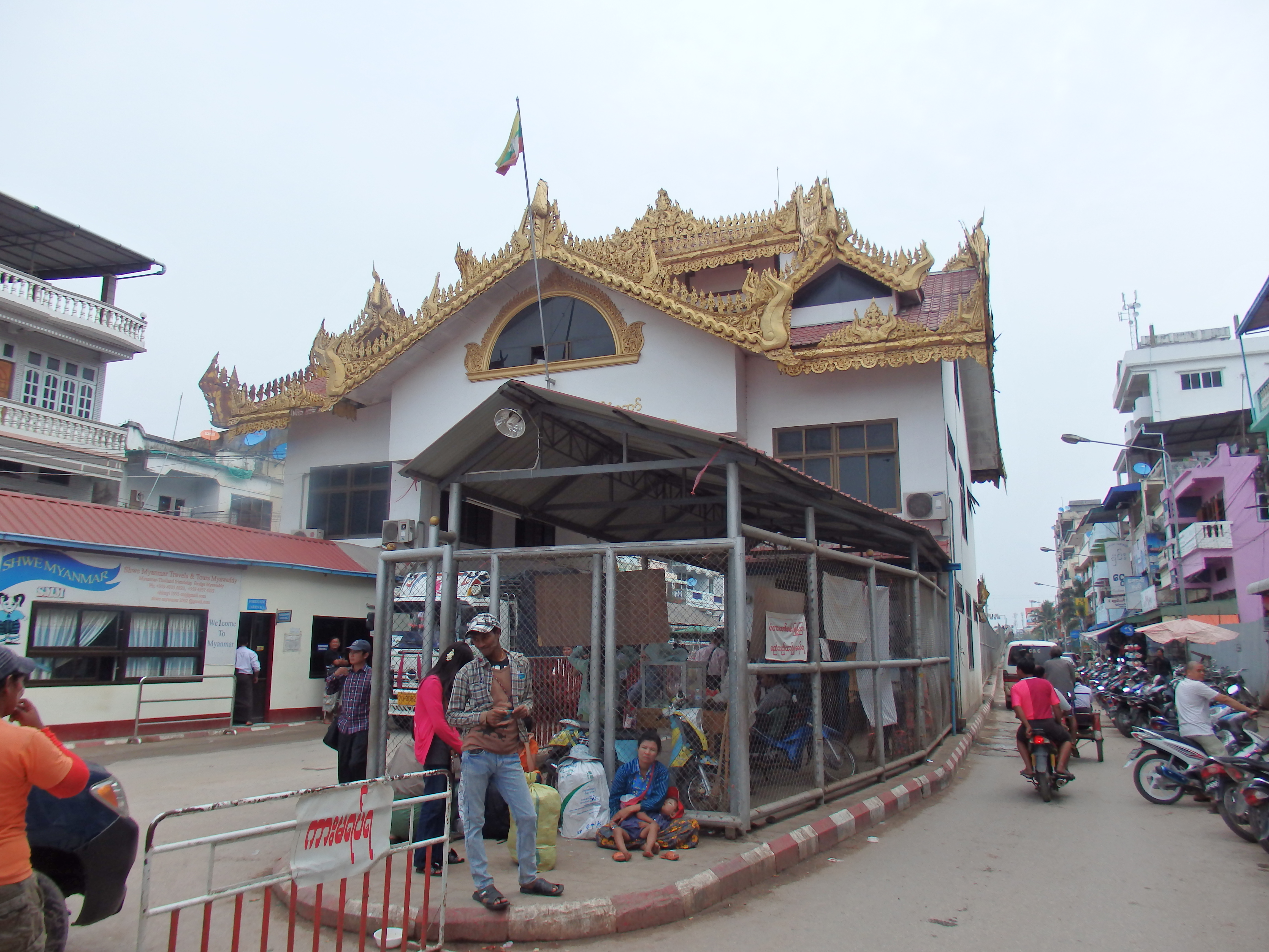 Check point